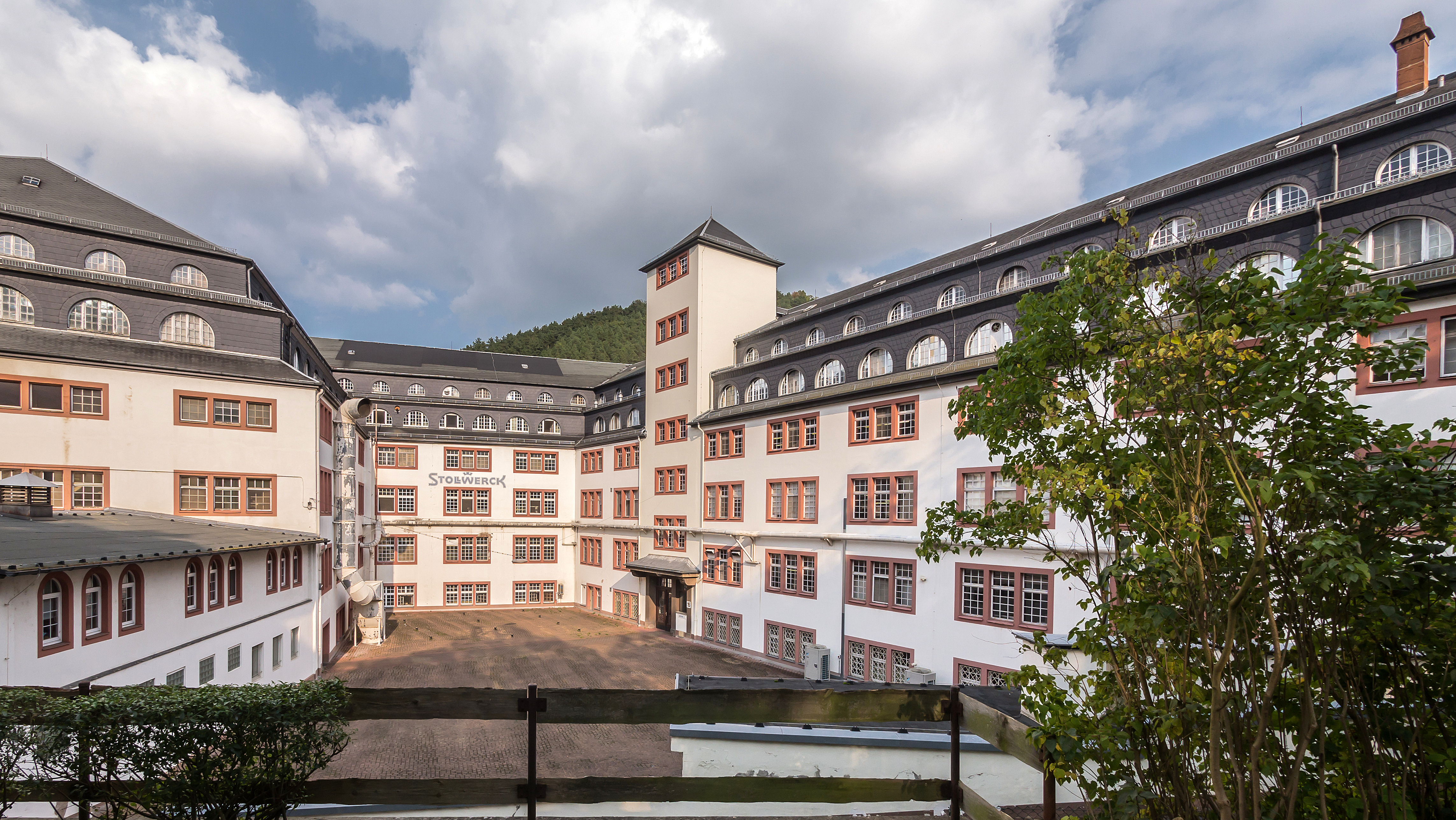 Saalfeld Neumühle 1 Schokoladenfabrik